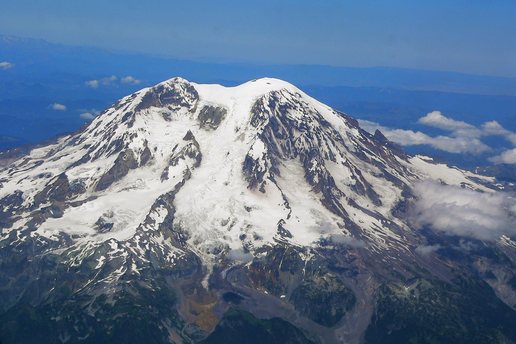 Aerial photo of Mount Rainier from the southwest